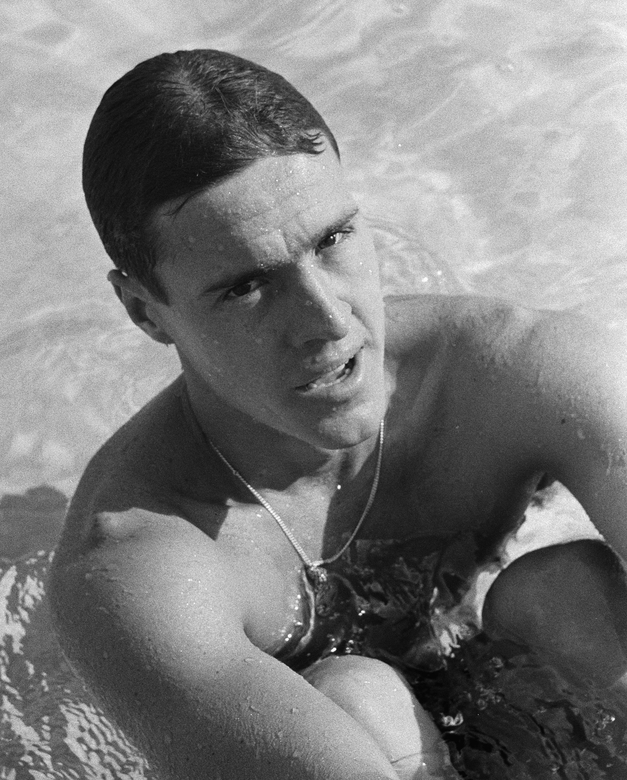 Olympische Spelen te Rome, halve finale rugslag, McKinney. Location: Italië, Rome